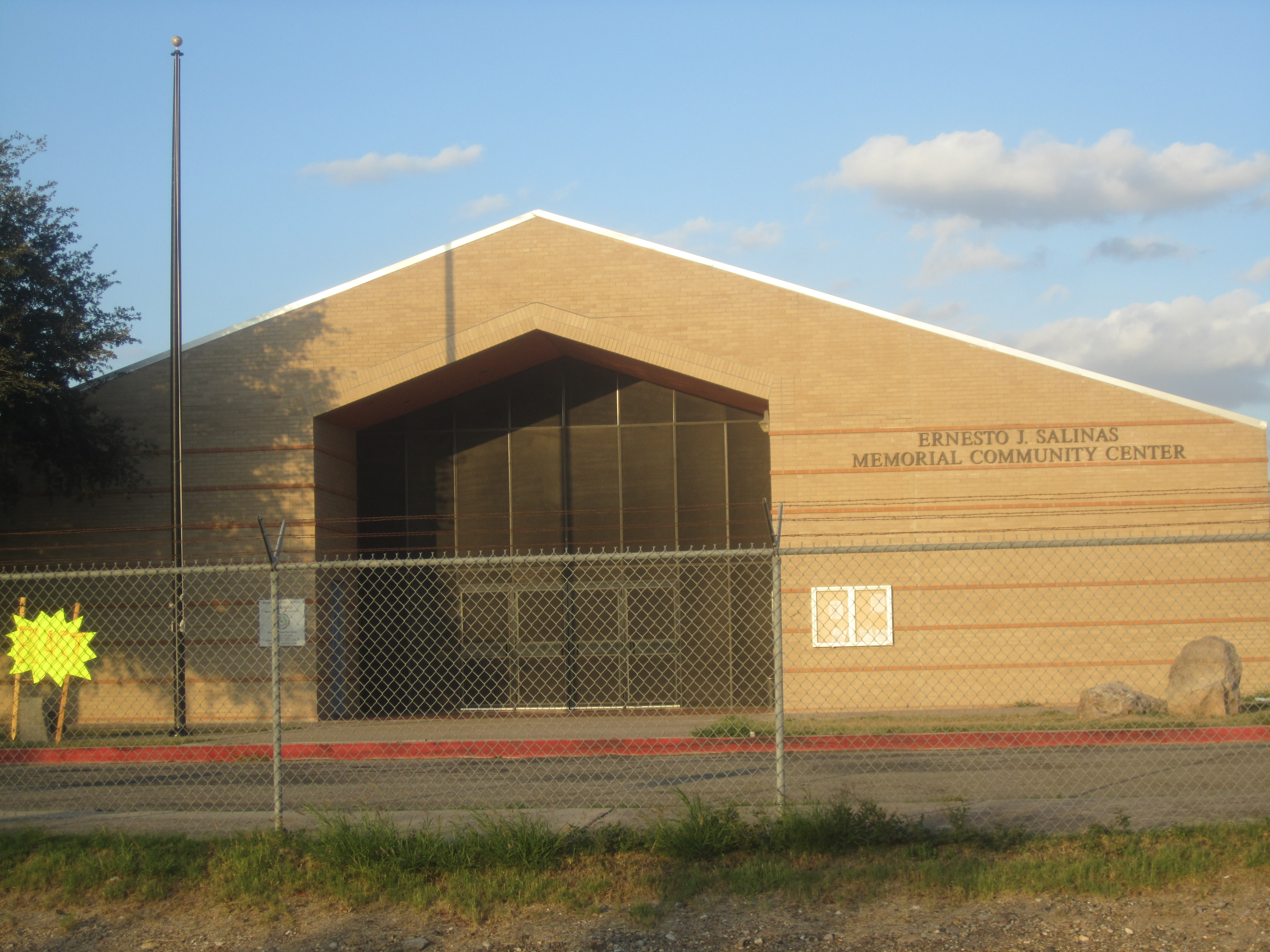 I took photo of Ernesto J. Salinas Memorial Community Center in Mirando City, TX, using Canon camera.